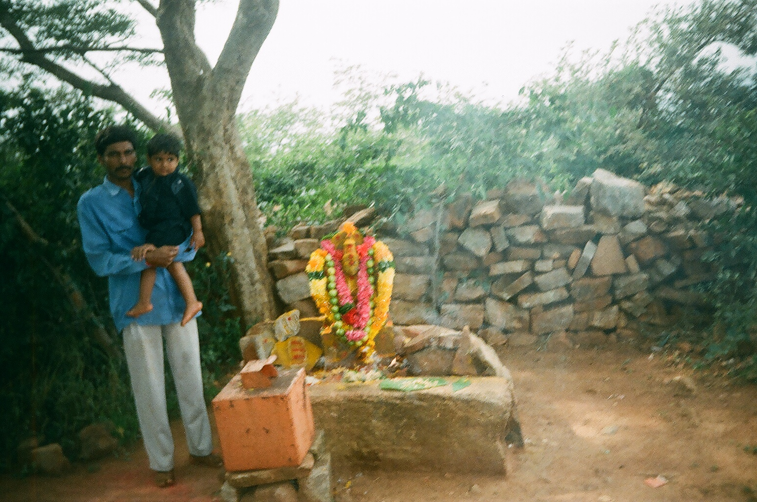 Sri Vinjetamma Temple on hill, Vinjamur, Nellore District